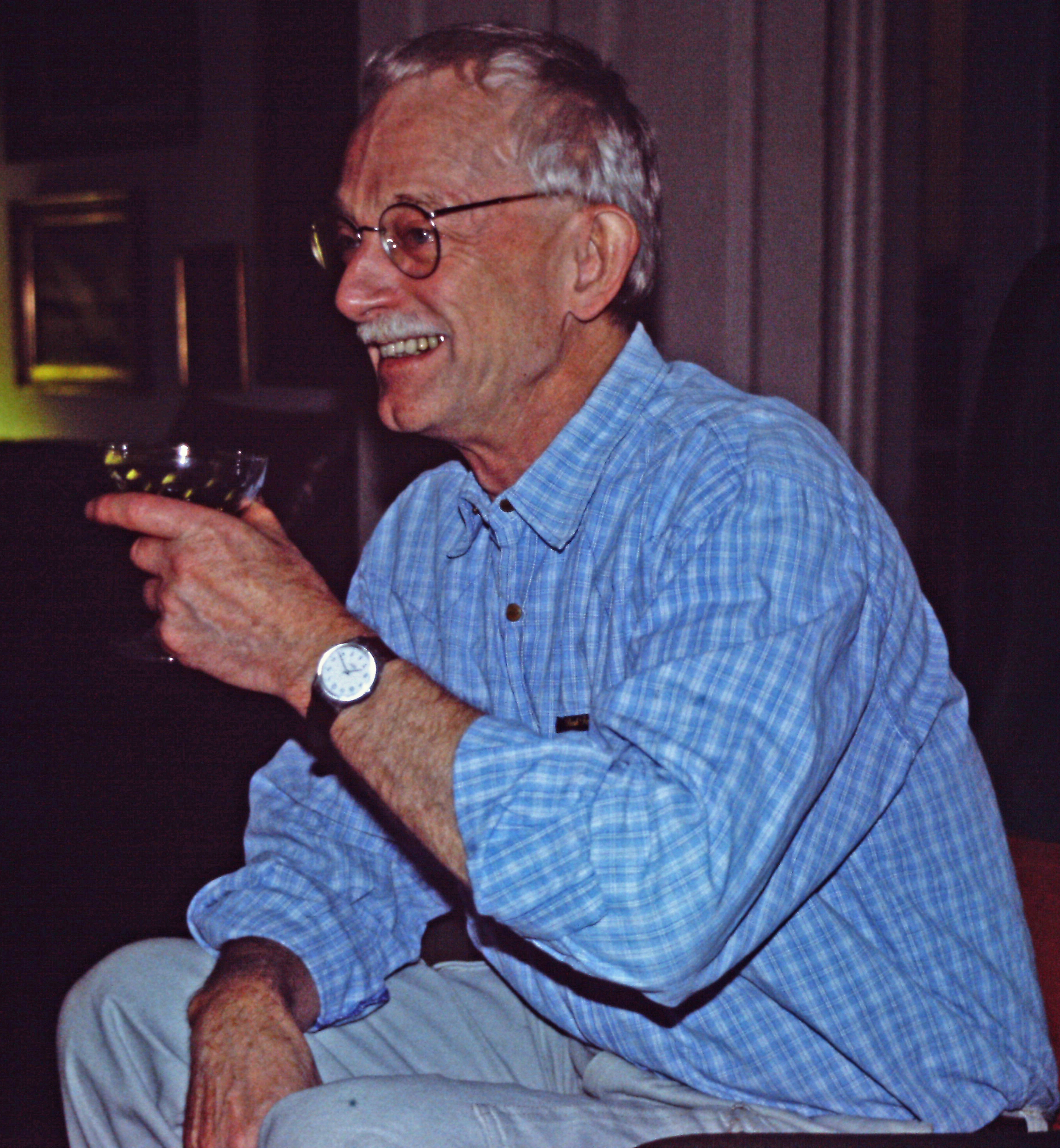 Wilhelm von Rosen at home